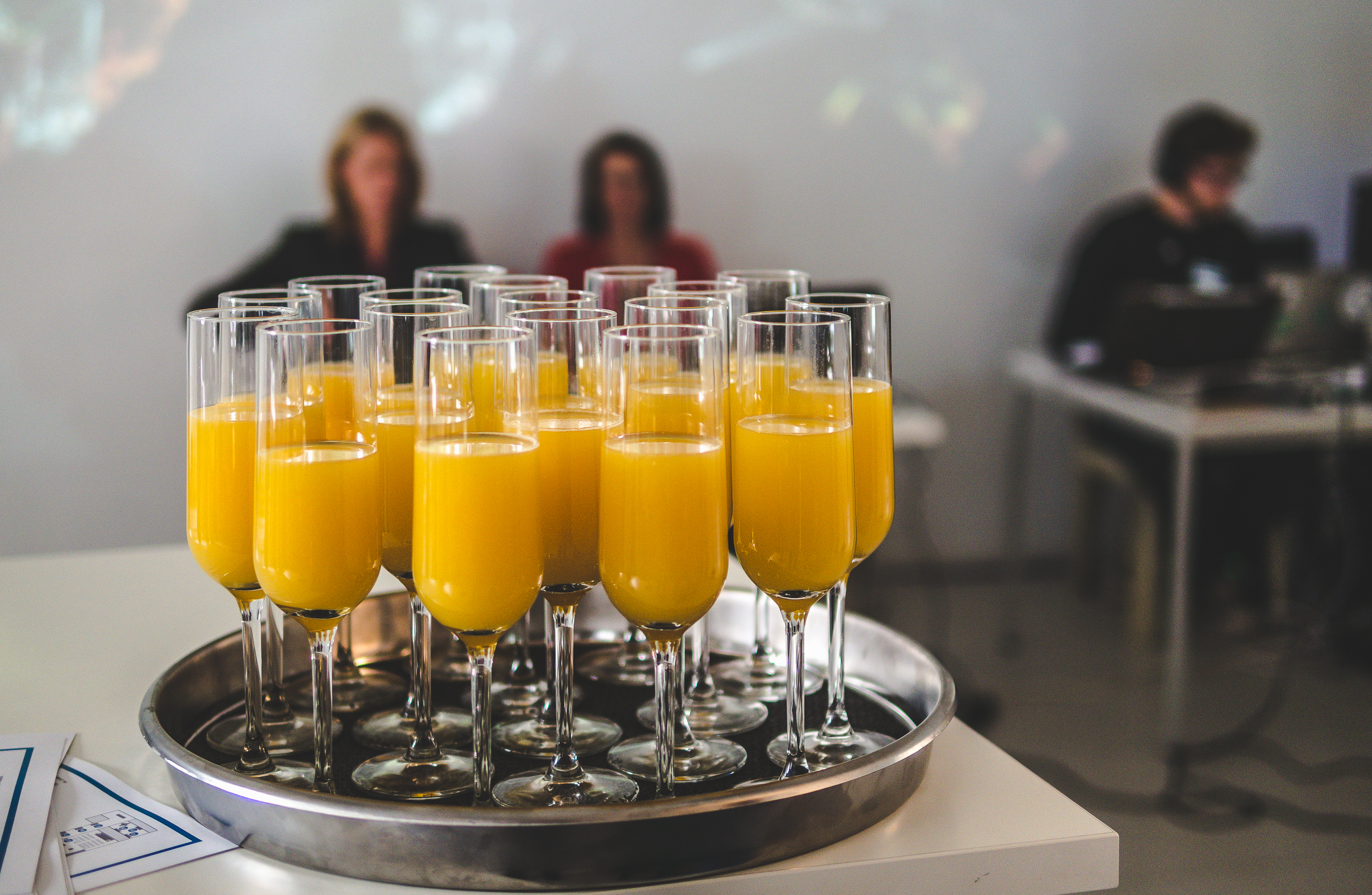 Orange Juice at Wikidata's third birthday celebaration on 2015, 29th of october.